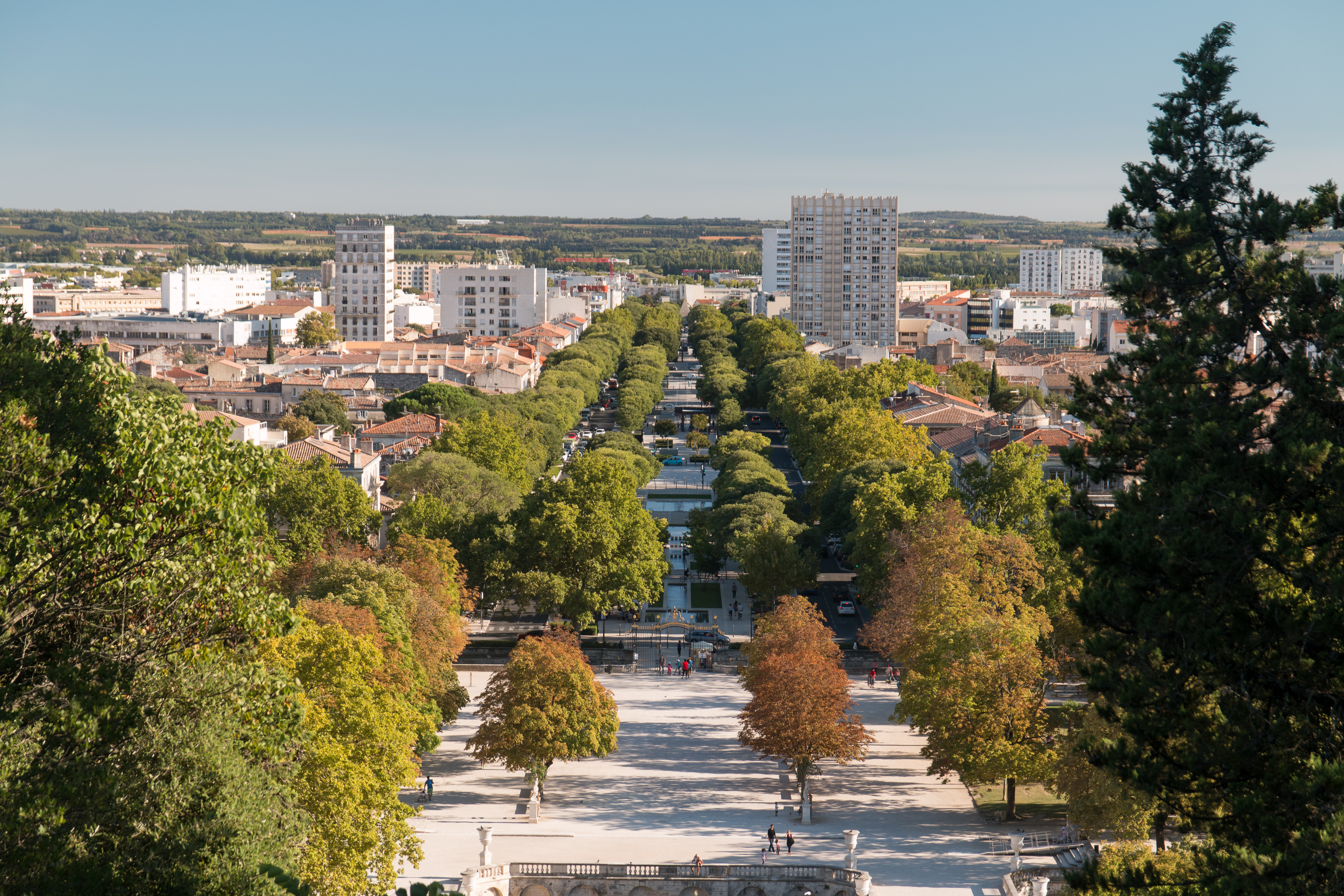 Perpective of the Avenue Jean Jaures,seen from the terraces view of the Garden of the Fountain